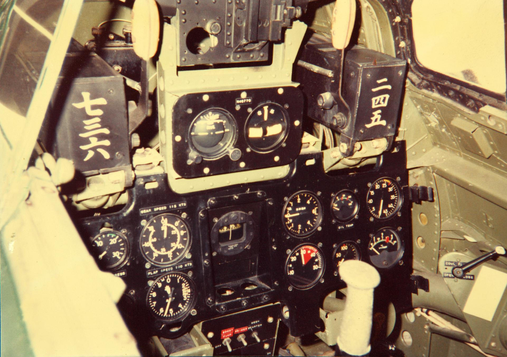 Cockpit of Mitsubishi A6M Zero